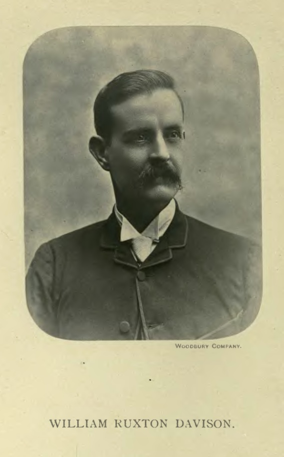 William Davison, curator of Allan Octavian Hume